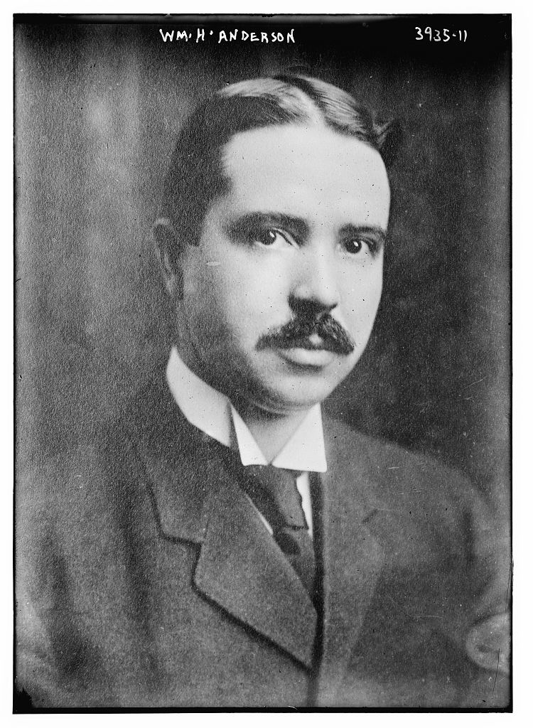 Bain News Service,, publisher. Wm. H. Anderson [between ca. 1915 and ca. 1920] 1 negative : glass ; 5 x 7 in. or smaller. Notes: Title from unverified data provided by the Bain News Service on the negatives or caption cards. Forms part of: George Grantham Bain Collection (Library of Congress). Format: Glass negatives. Repository: Library of Congress, Prints and Photographs Division, Washington, D.C. 20540 USA, General information about the Bain Collection is available at Higher resolution image is available (Persistent URL): Call Number: LC-B2- 3935-11